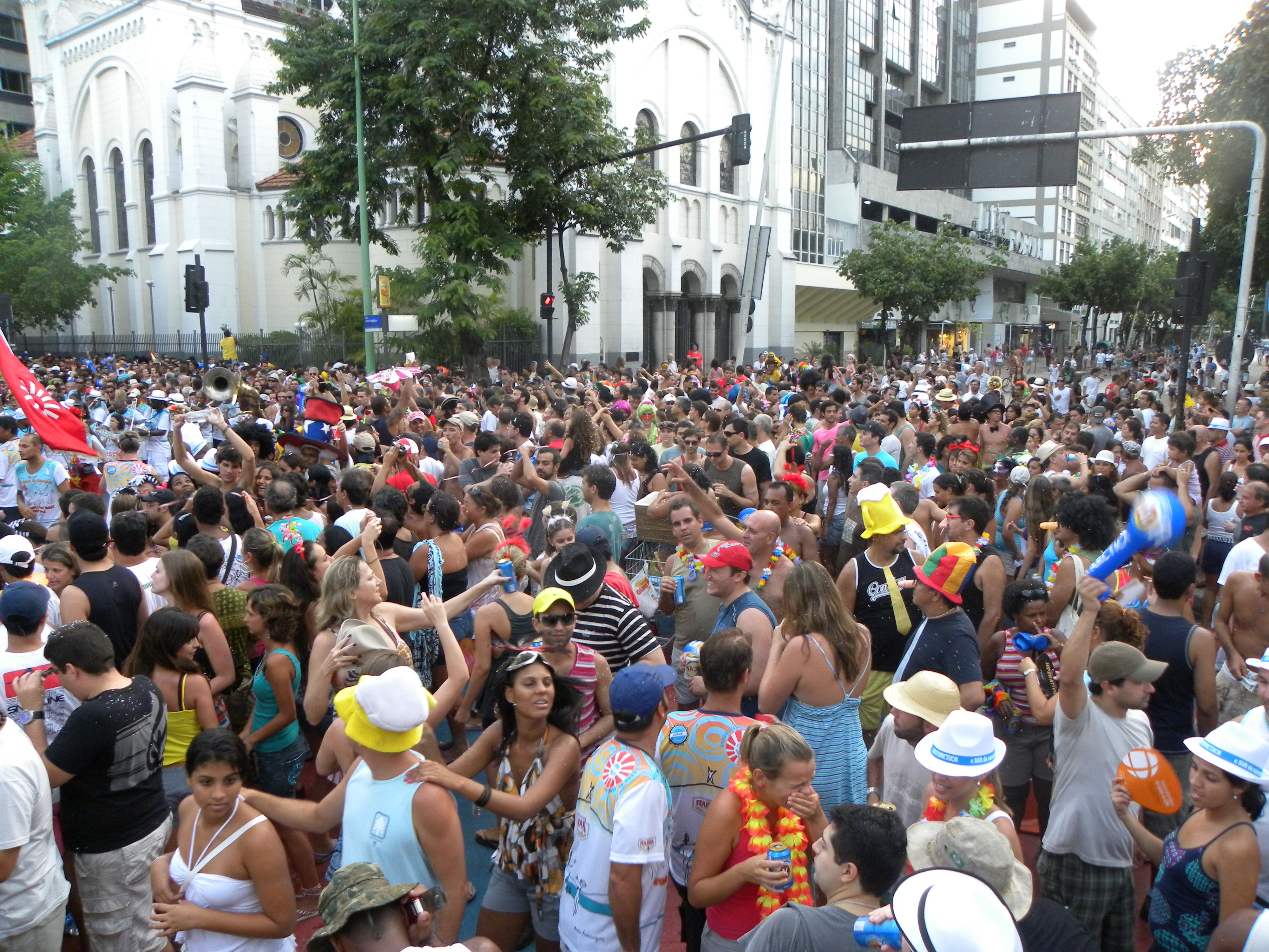 This is an image of Banda de Ipanema just as it turns back on Rua Visconde de Pirajá. At this spot, next to Nossa Senhora da Paz Church, the band plays the song Carinhoso. This is a tribute to composer Pixinguinha, who died in the church on a Carnival day.